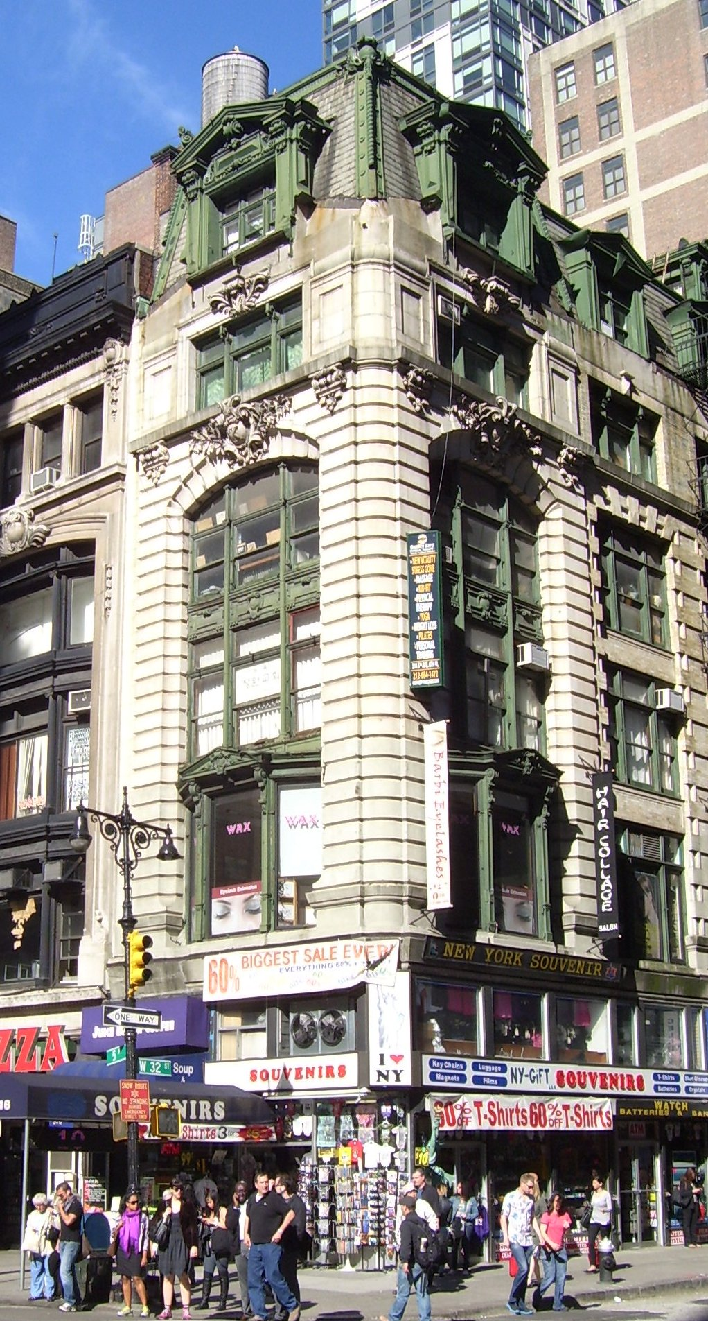 The Kaskel & Kaskel Building at 316 Fifth Avenue on the corner of East 32nd Street in the NoMad neighborhood of Manhattan, New York City was built in 1903 and was designed by Charles L. Berg in the Beaux-Arts style. (Source: AIA Guide to NYC (4th ed.)) In July 2017, Kohn Pederson Fox filed plans with the city which, if carried out, would replace the building with a 539-foot 40-story tower consisting of two dozen apartments and three floors of retail. (Source: [1])